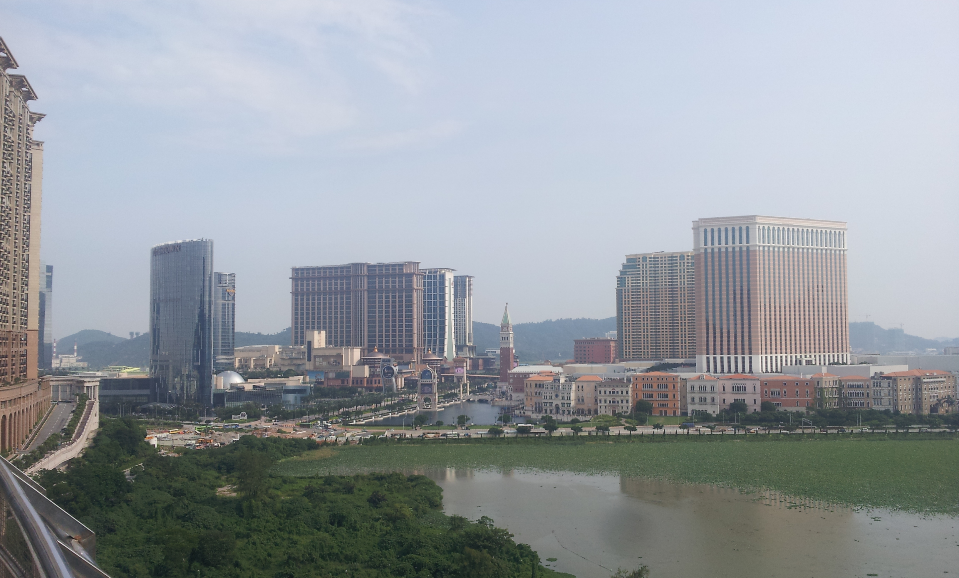 the picture of Cotai in 2013